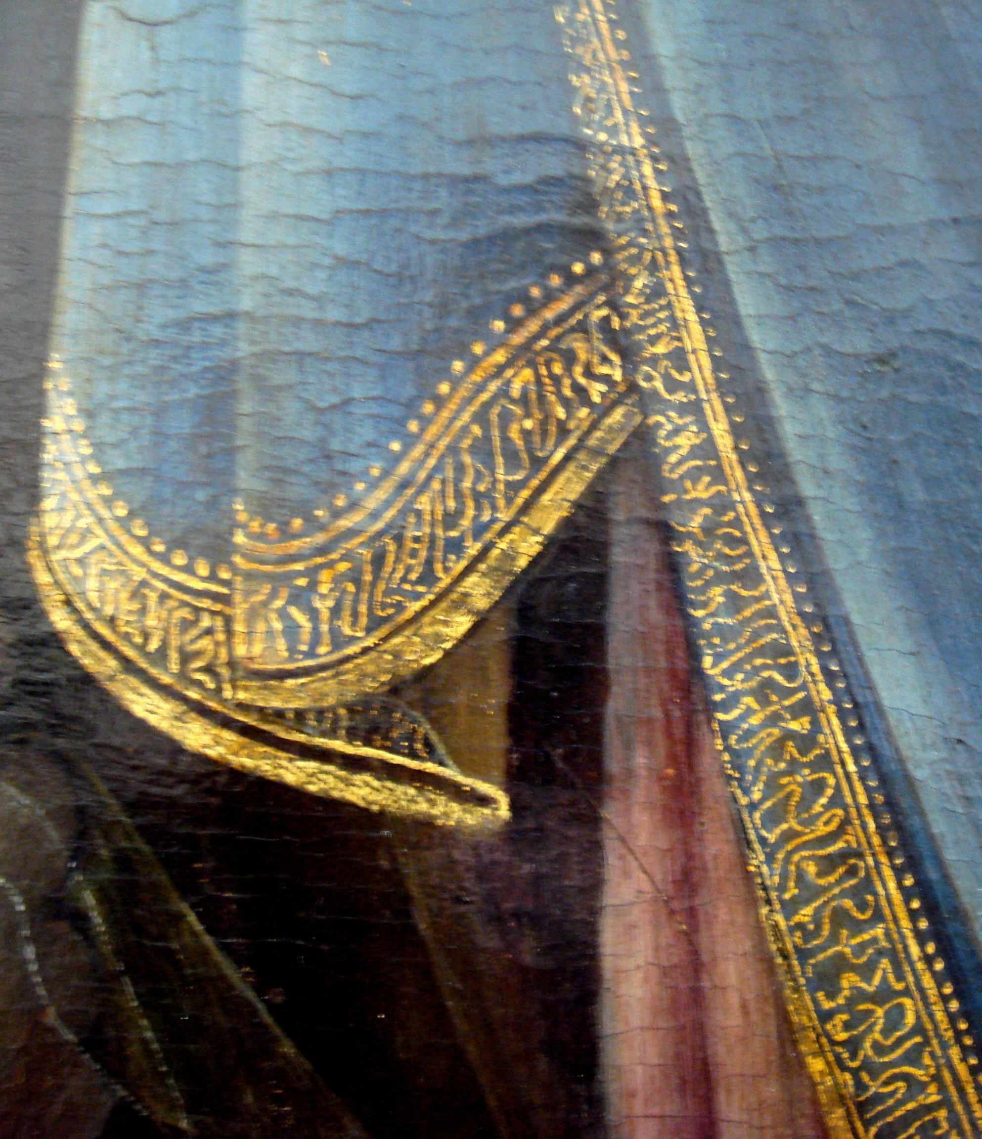 Filippo_Lippi_Pala_Barbadori_1437 detail